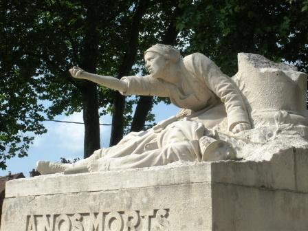 The monument aux morts (war memorial) at Peronne in the Somme region of France.It was Paul Auban who sculpted this most famous monument aux morts- “Picarde maudissant la guerre” situated in the rue Beranger. In this powerful piece a woman leans over a dead body and shakes her fist towards the unseen enemy in a gesture of vengeance. There are also bas-reliefs signed by Paul Theunissen and the monument was completed in 1926. It was inaugurated on the 20th June 1926.